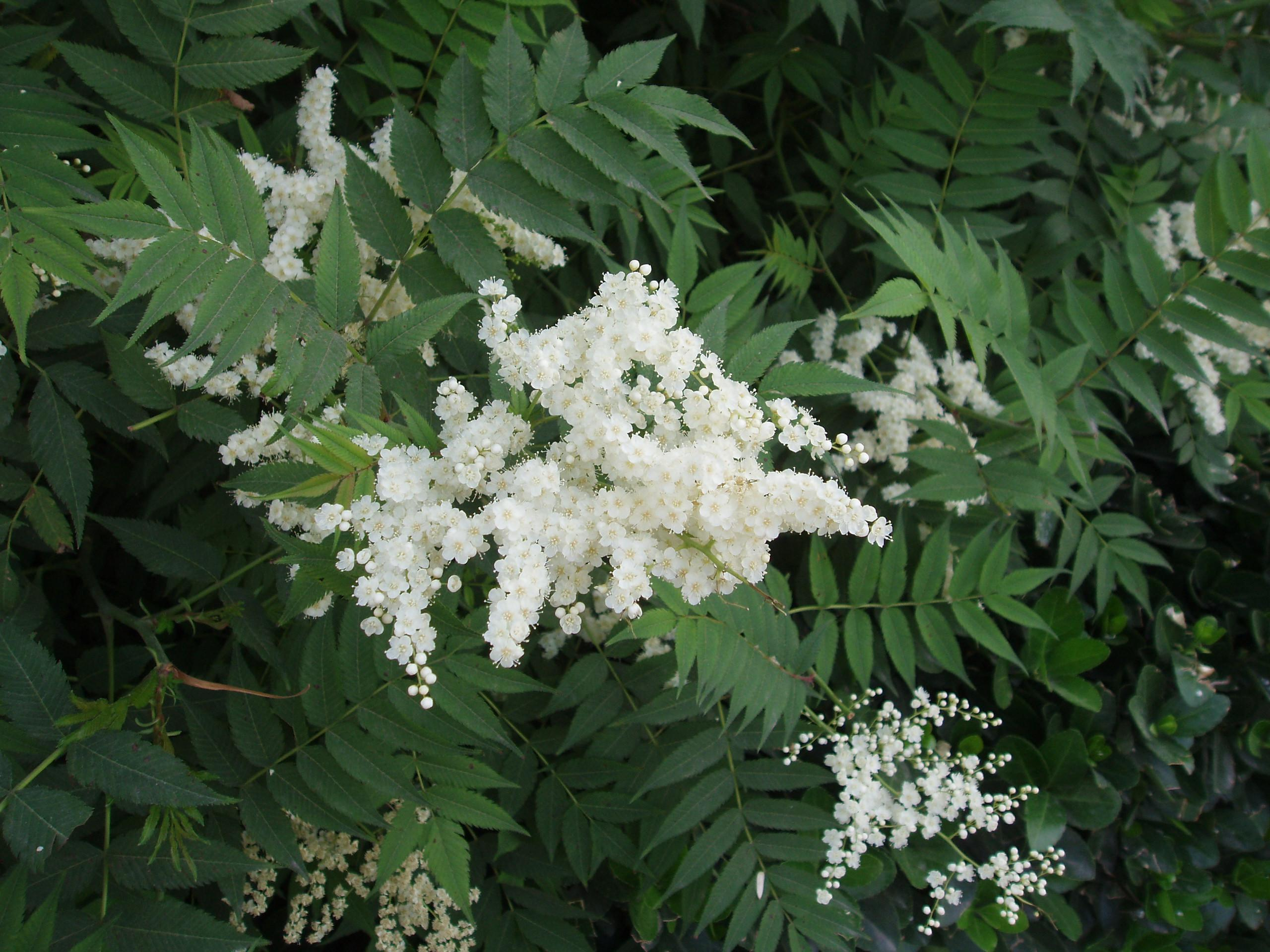 Ural false spirea flowers